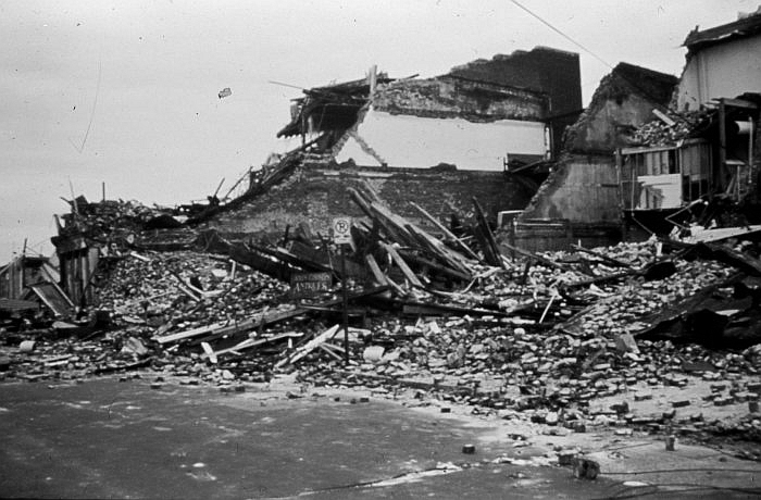 An old brick building in Charleston, South Carolina in ruins after Hurricane Hugo